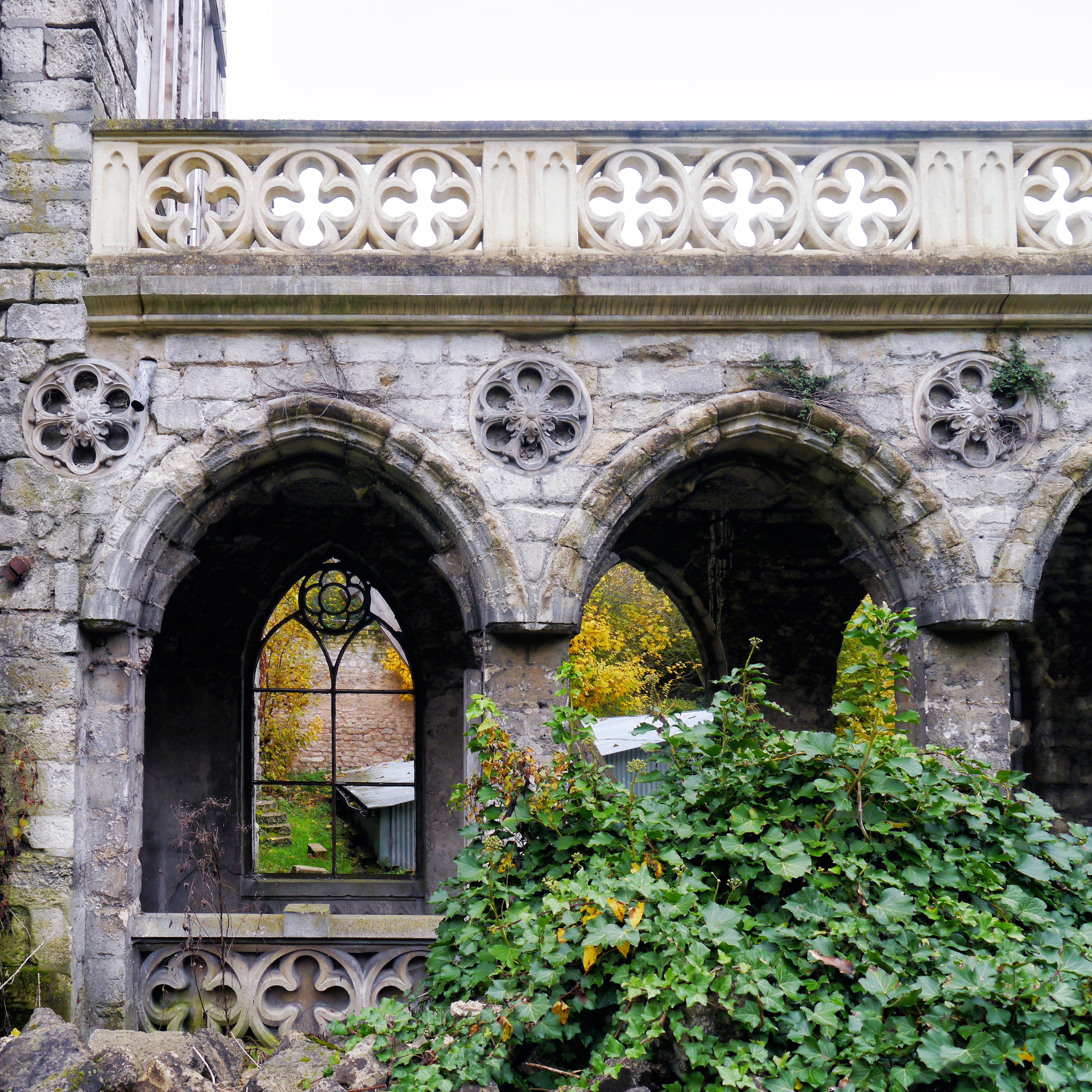 Saint-Maur-des-Fossés, Val-de-Marne, France. Ruins of the cloister of the abbey, next to the chapelle Notre-Dame-des-Miracles.